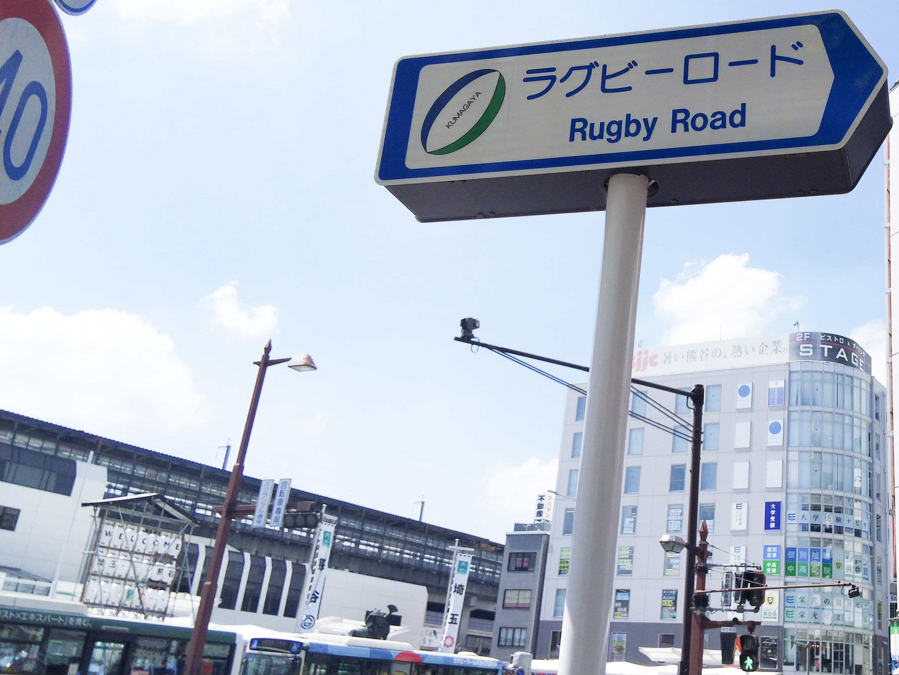 KumagayaCity(Saitama,Japan) RugbyRoad Starting point